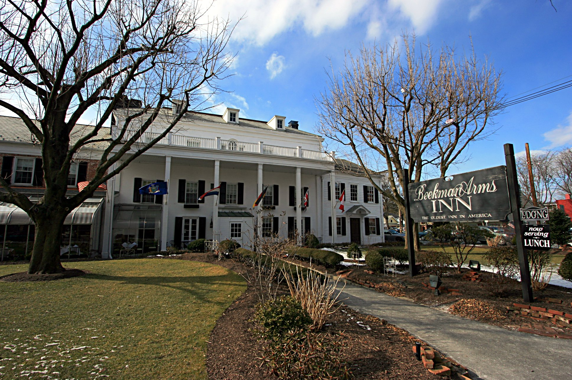 Photograph of the "Beekmans Arms" in the Village of Rhinebeck, Dutchess County, New York, USA. The Beekmans Arms Inn claims to be the oldest operating Inn in America.